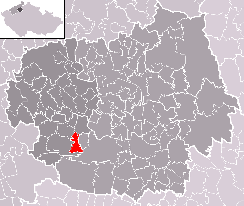 Location of Radovesice municipality within Litoměřice District and administrative area of Lovosice as a Municipality with Extended Competence.